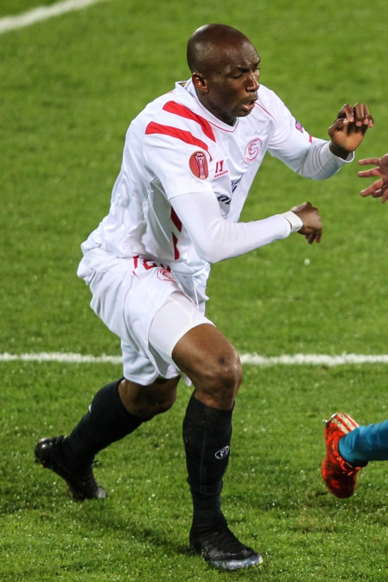 Stéphane Mbia